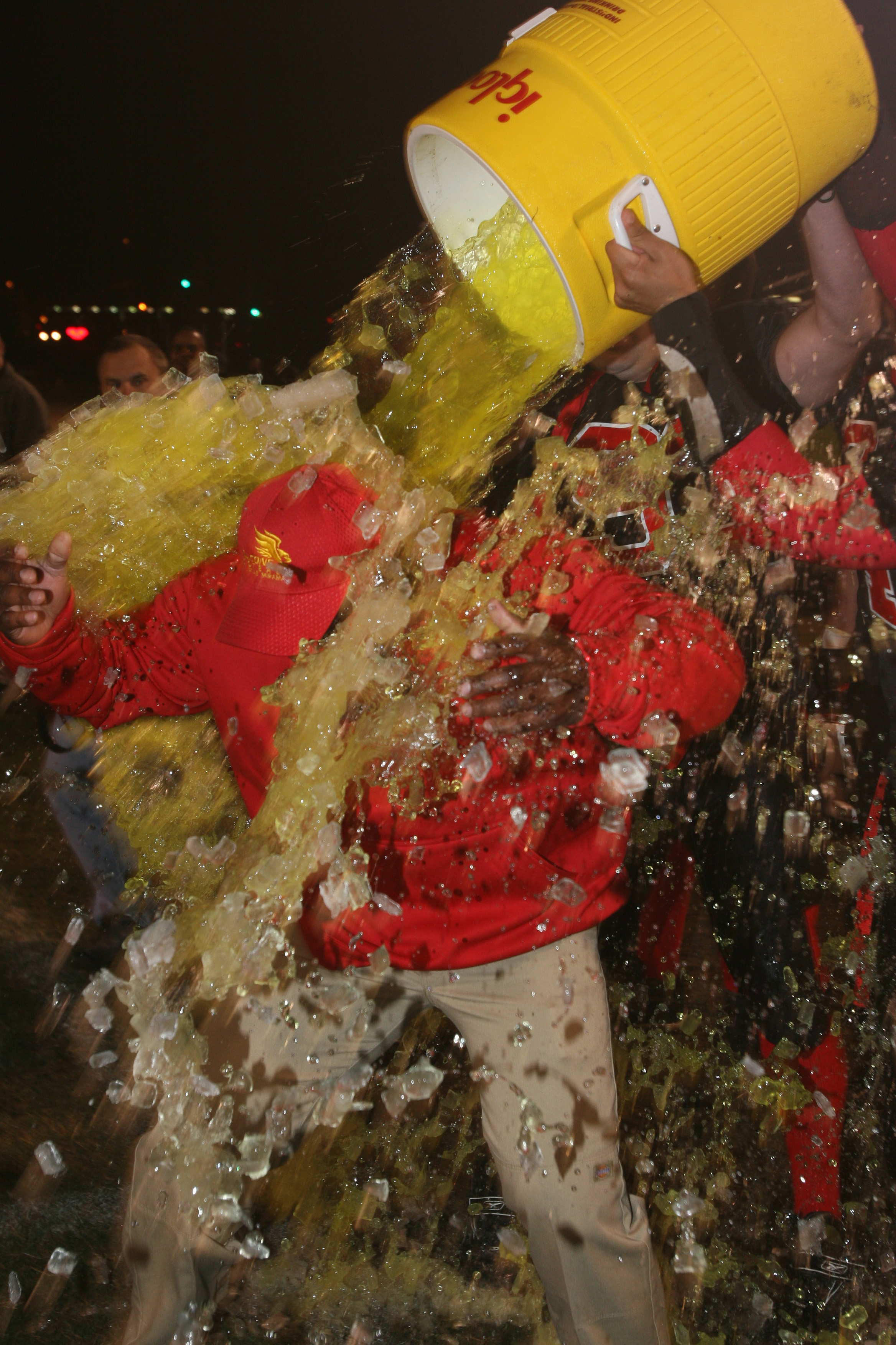 MARINE CORPS AIR STATION MIRAMAR, Calif. – Falcons head coach, Master Sgt. Bennis Branch, receives the traditional Gatorade bath from his team in celebration of their defeat over the “Marshals” from the School of Infantry during the Camp Pendleton Tackle Football League championship game. Branch has led his team to two consecutive finals appearances with only one title. (U.S. Marine Corps photo by Lance Cpl. Fredrick J. Coleman) (Released)